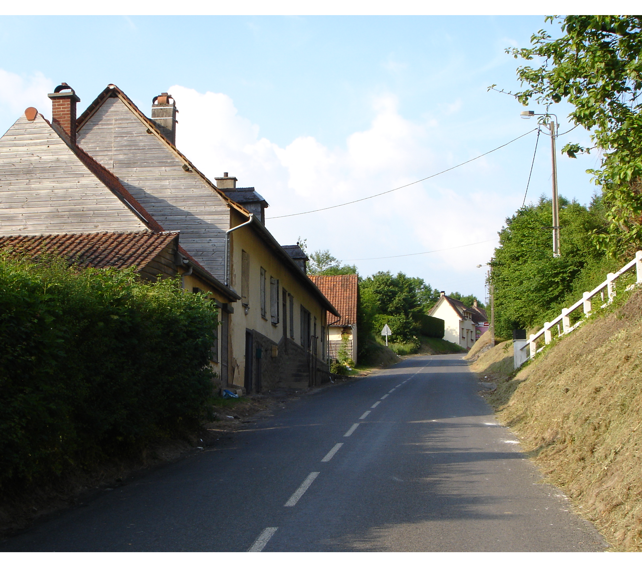 The hill of Moueiz, locally called "Bruges hill" (year 2009)